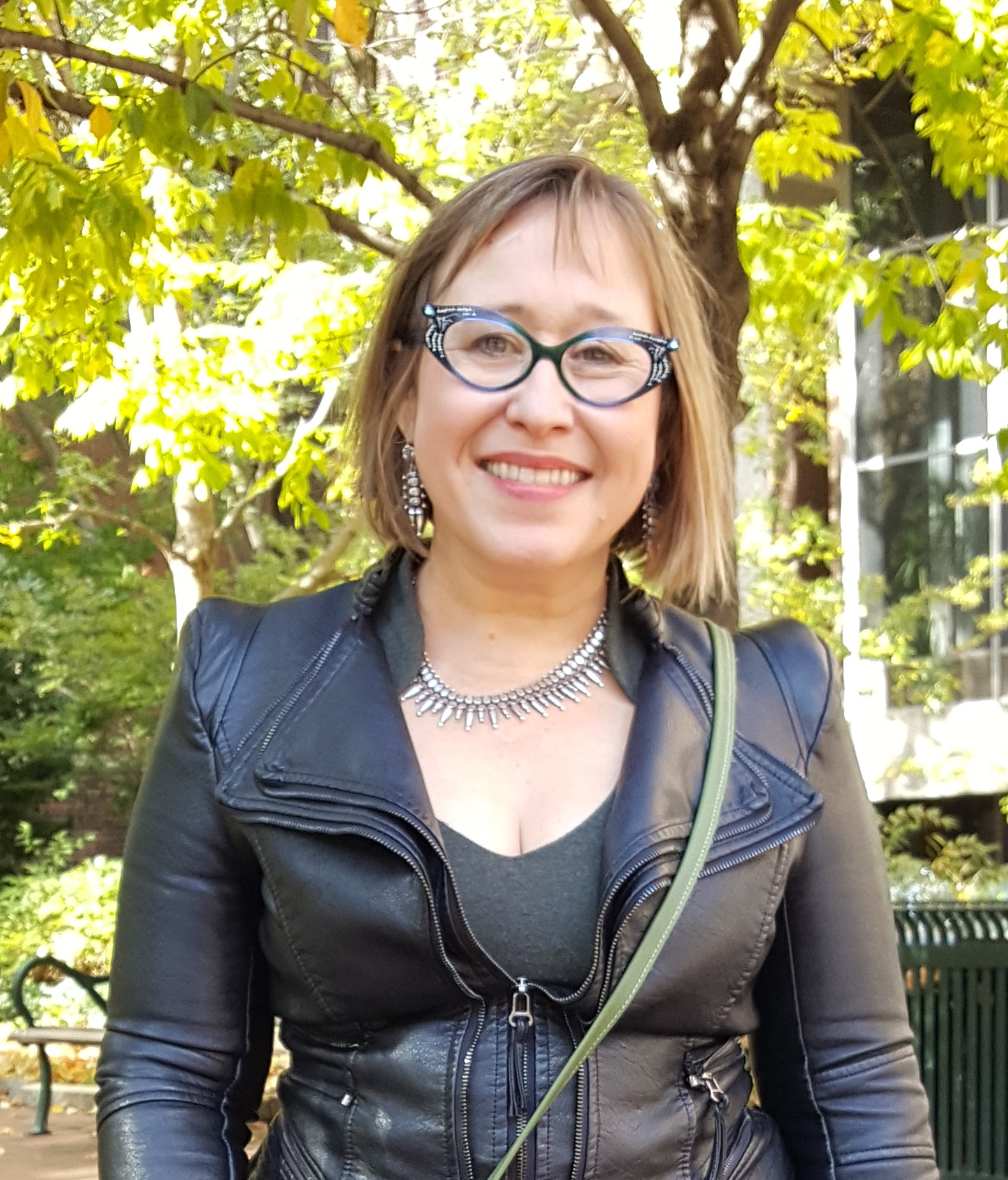 Headshot of Heather J. Sharkey in front of Van Pelt library at the University of Pennsylvania